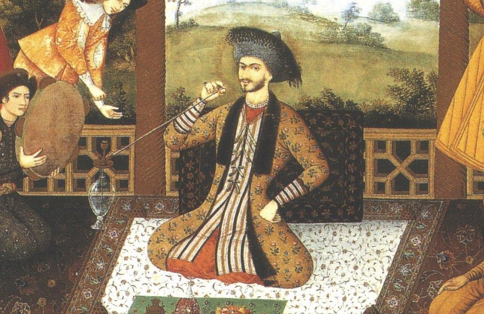 Ali Culi Jabbadar